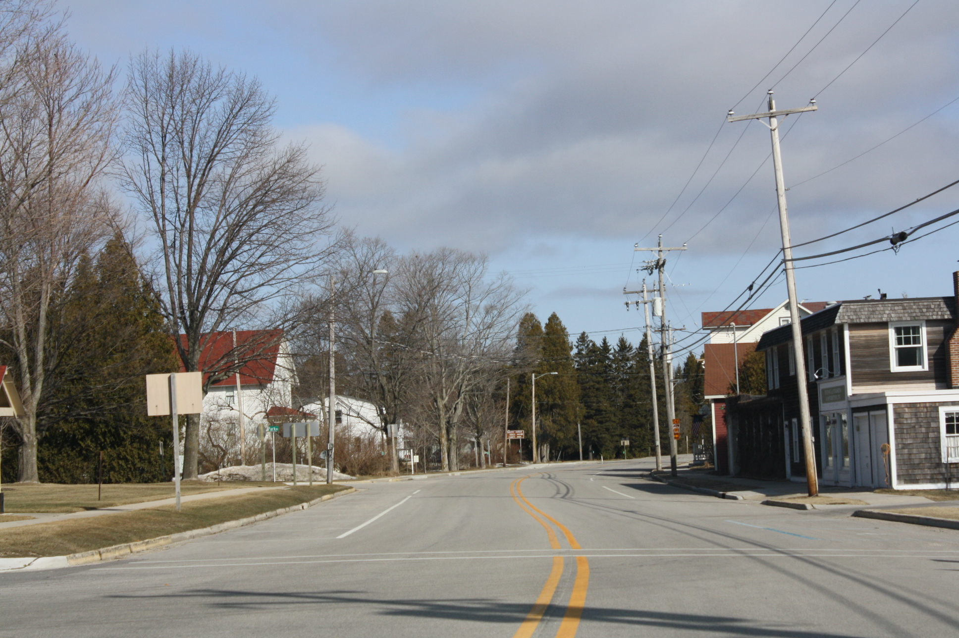 Looking northernly in downtown Baileys Harbor (community), Wisconsin on Wisconsin Highway 57.